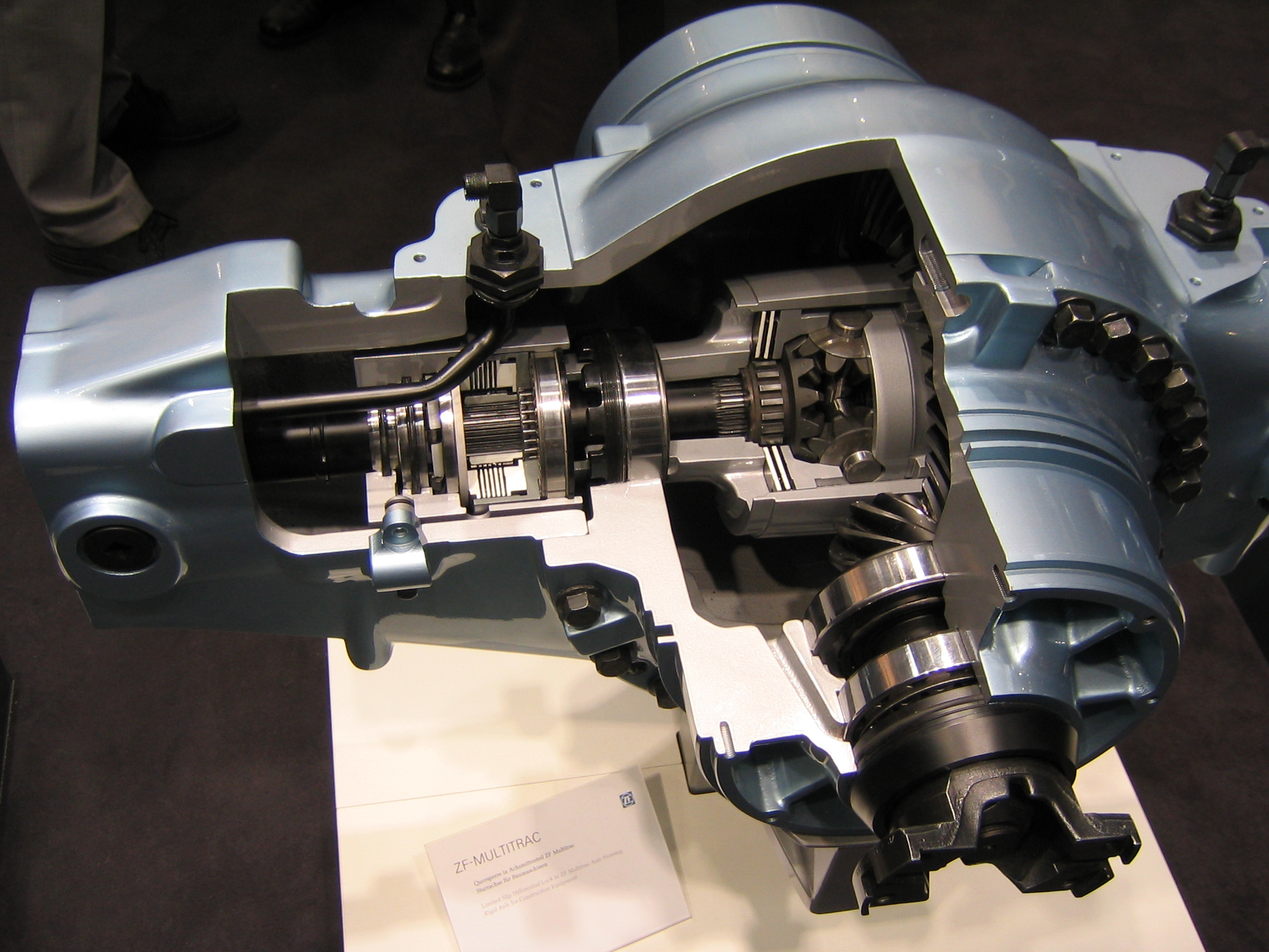 ZF Differential, bauma 2004